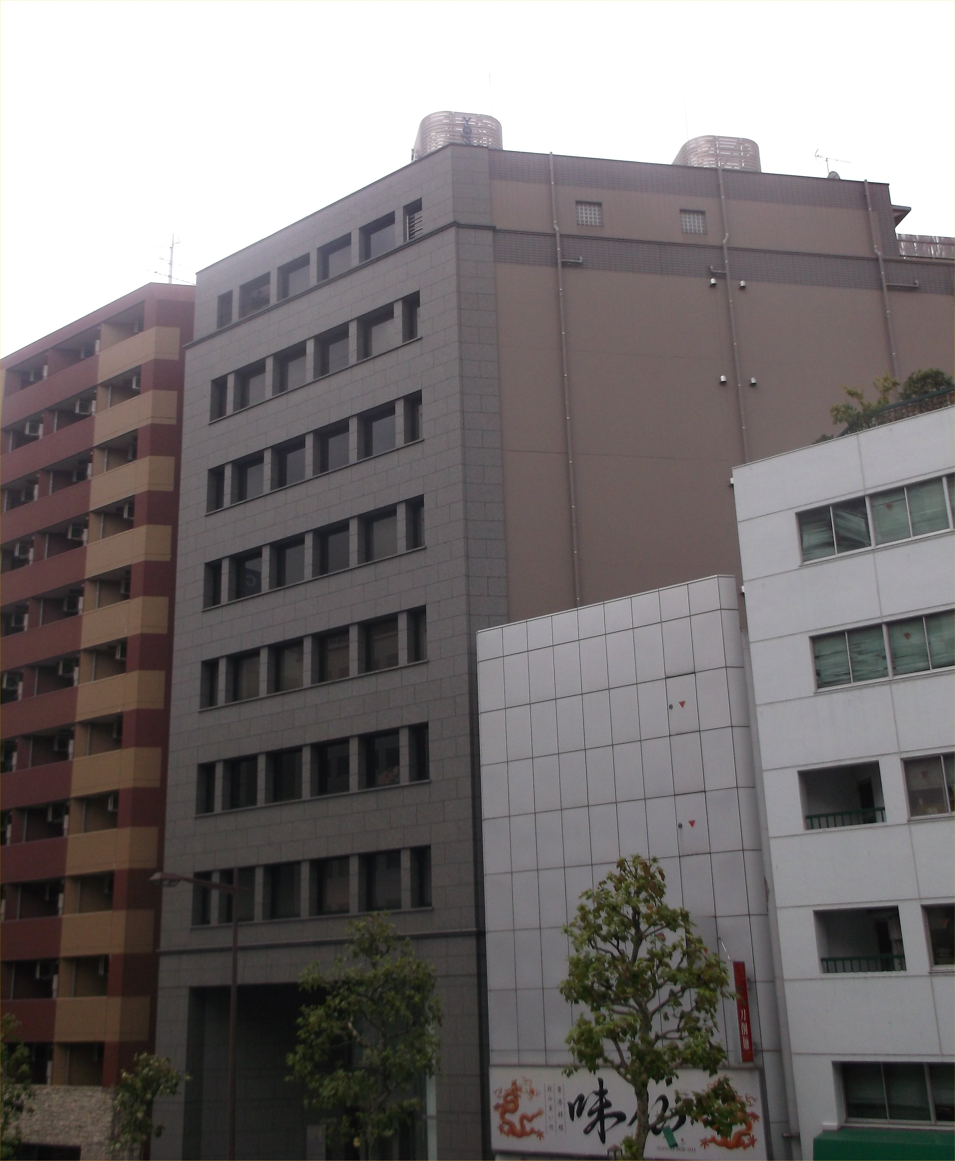 A photo of "Yoshida bag co .Ltd." head office,Higashikanda,Chiyoda-ku,Tokyo,Japan.